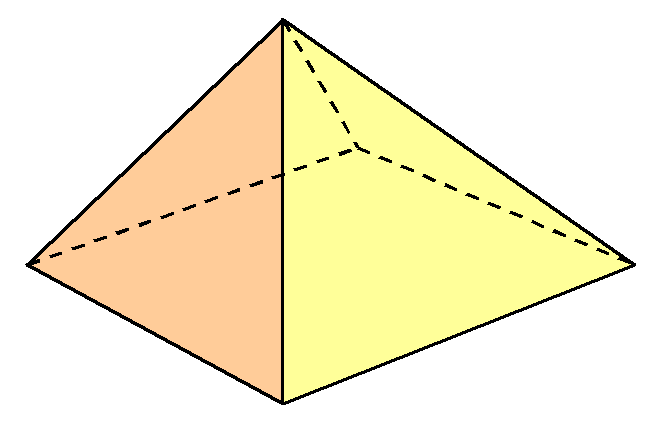 Diagram of a four-sided pyramid.